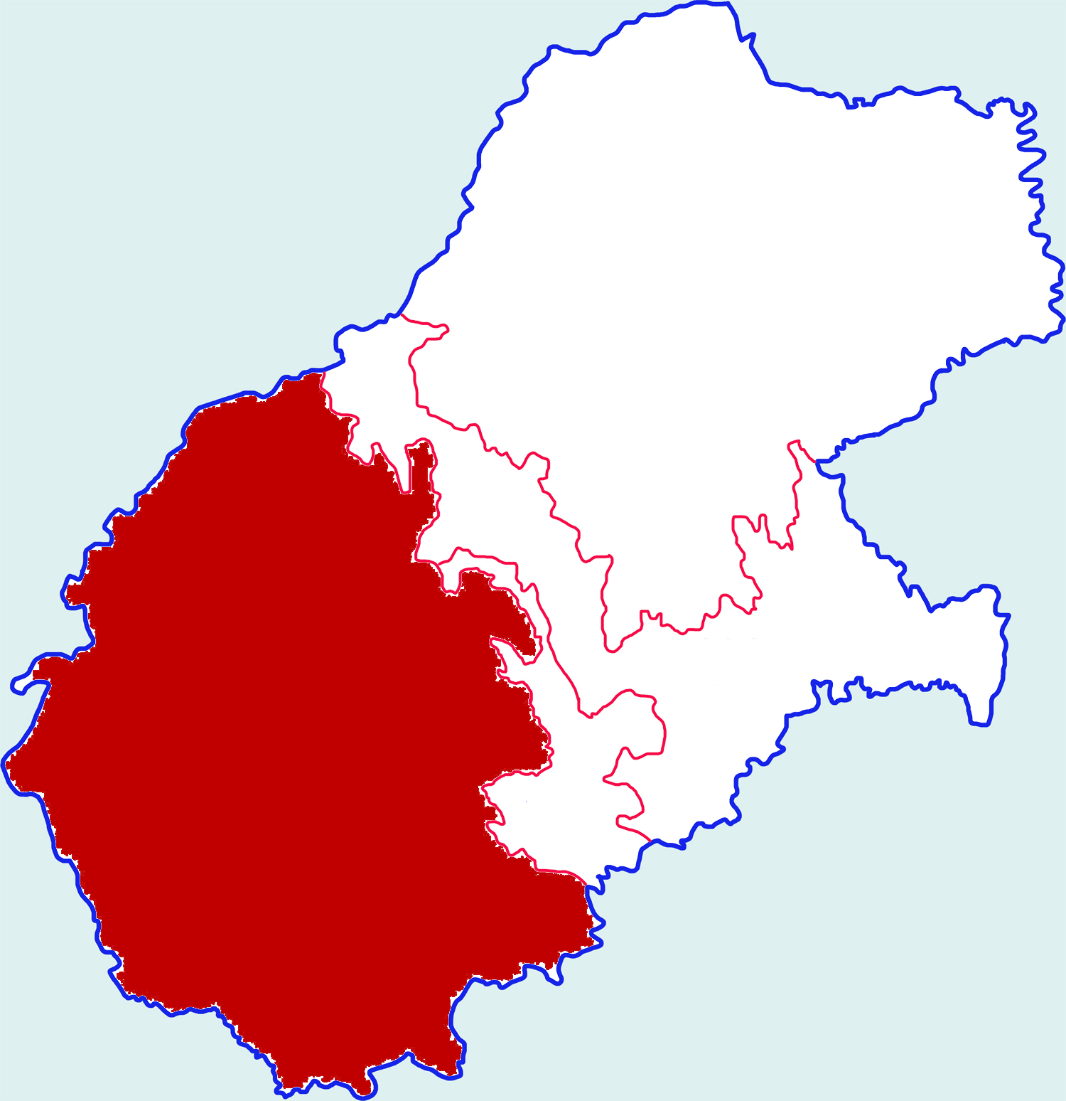 Location of Yaozhou district in Tongchuan city, China